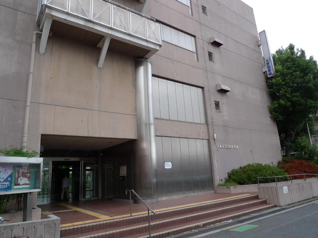 Photo of Ikuno Library in Osaka City